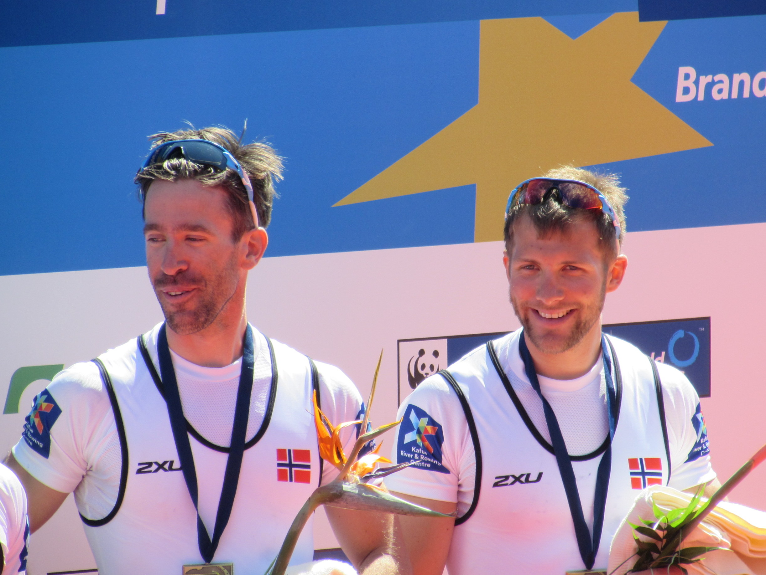 Kristoffer Brun (right) and Are Strandli (left) at the 2016 European Rowing Championships in Brandenburg an der Havel, Germany